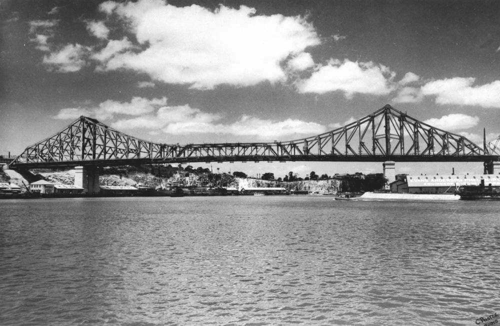 Brisbane's Story Bridge, 1940 This 281 metre cantilever truss bridge was constructed by Evans Deakin - Hornibrook Pty. Ltd. Building began in May 1935 and the bridge opened on the 6th July 1940. The premises of Evans Anderson Phelan Pty. Ltd. Engineers at Kangaroo Point, are visible on the right. The New Farm cliffs can be seen in the background.